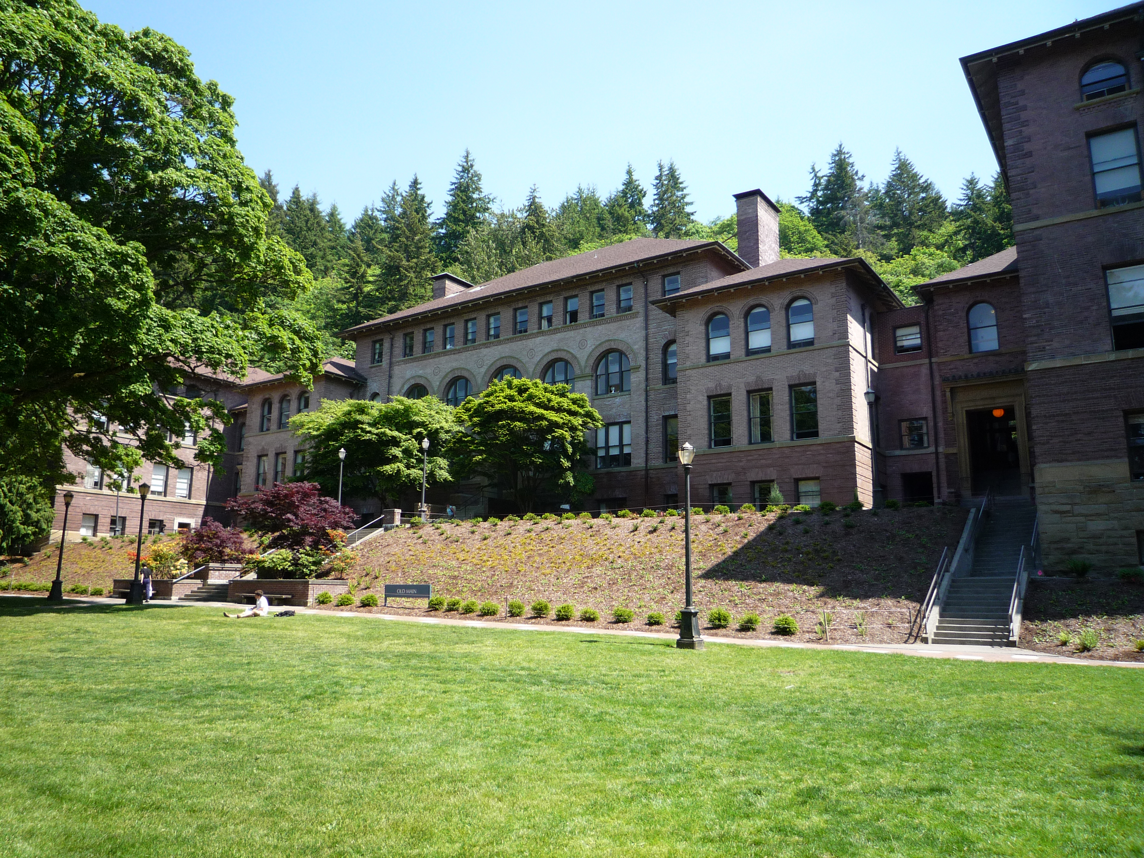 Old Main, Western Washington University, Bellingham, Washington, USA.